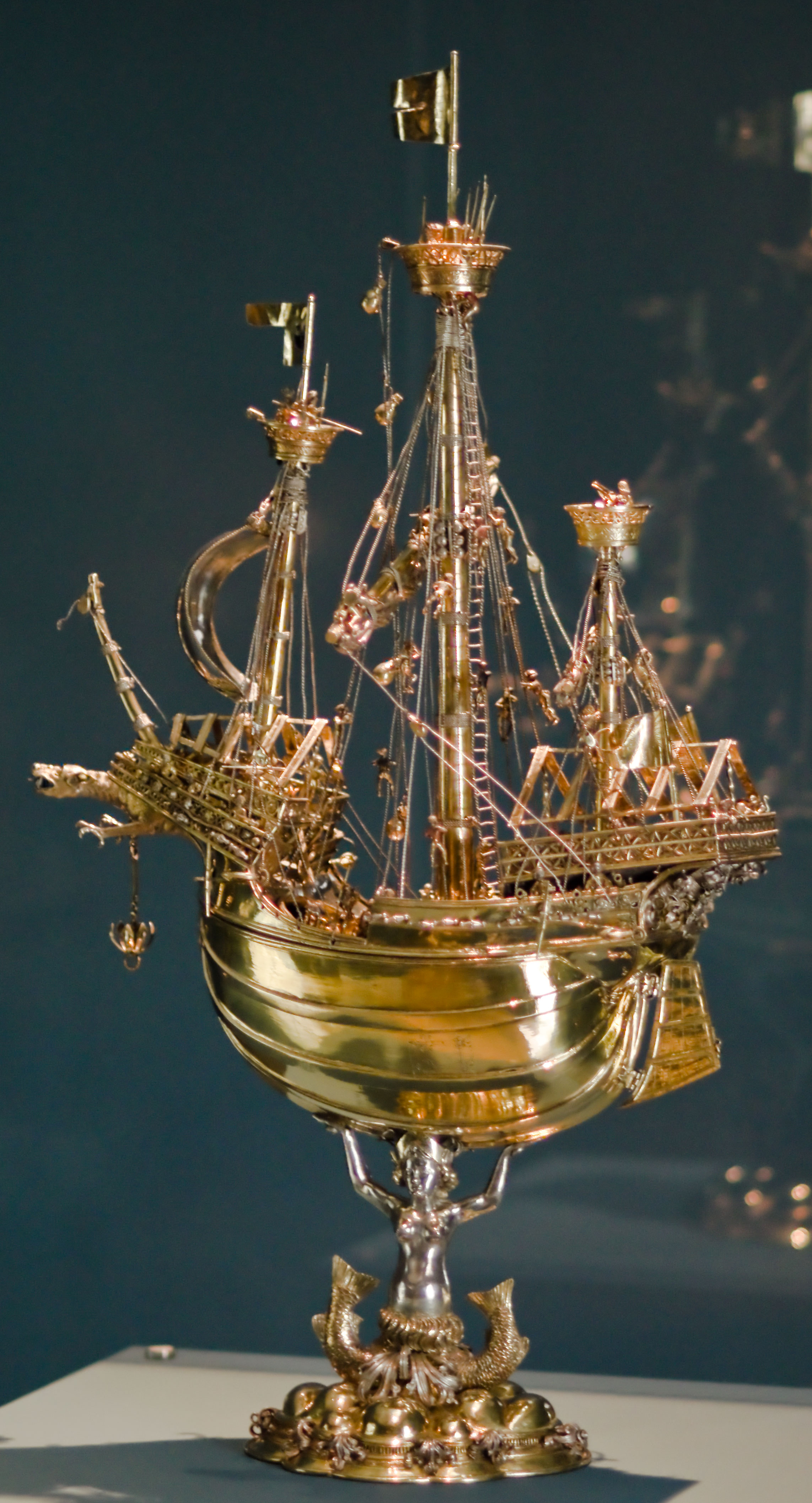 The Schlüsselfeld Ship. Gold plated silver. 79 cm tall. Made in Nuremberg befor 1503. Germanisches Nationalmuseum, Nuremberg.